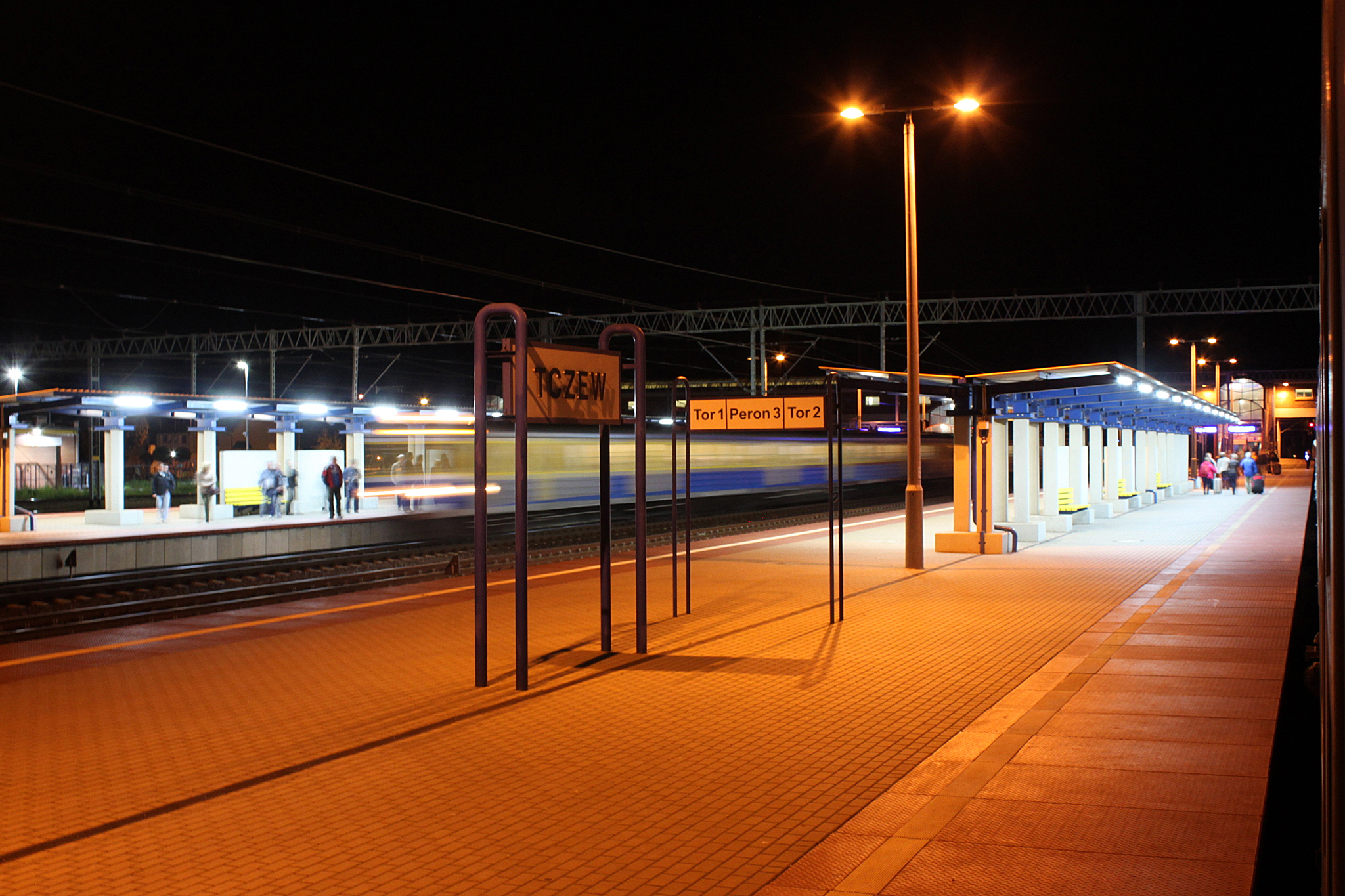 Tczew train station, seen from TLK 38203 "Ustronie".